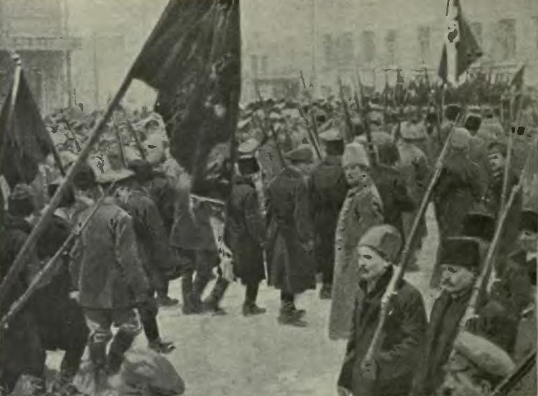 Ukrainian troops supporting the Rada leave Kiev to fight the Bolshevik army.